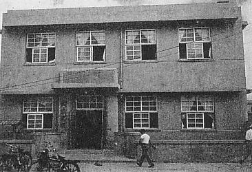 Ryukyu Customs Building